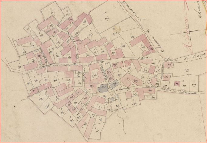 Map of Mont in 1832